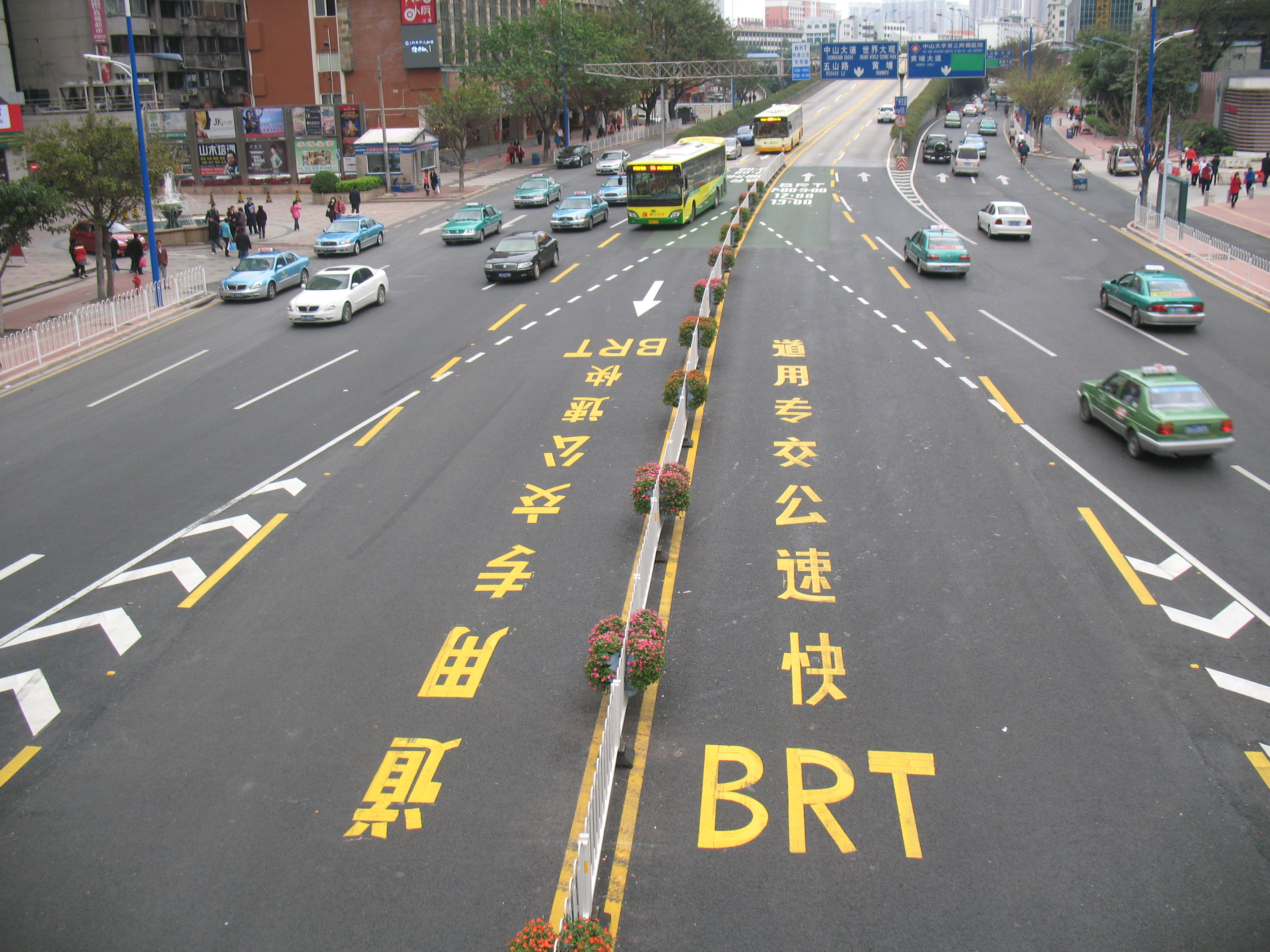 Guangzhou GBRT Lane 中文（香港）: 中山大道快速公交試驗線快速公交專用道